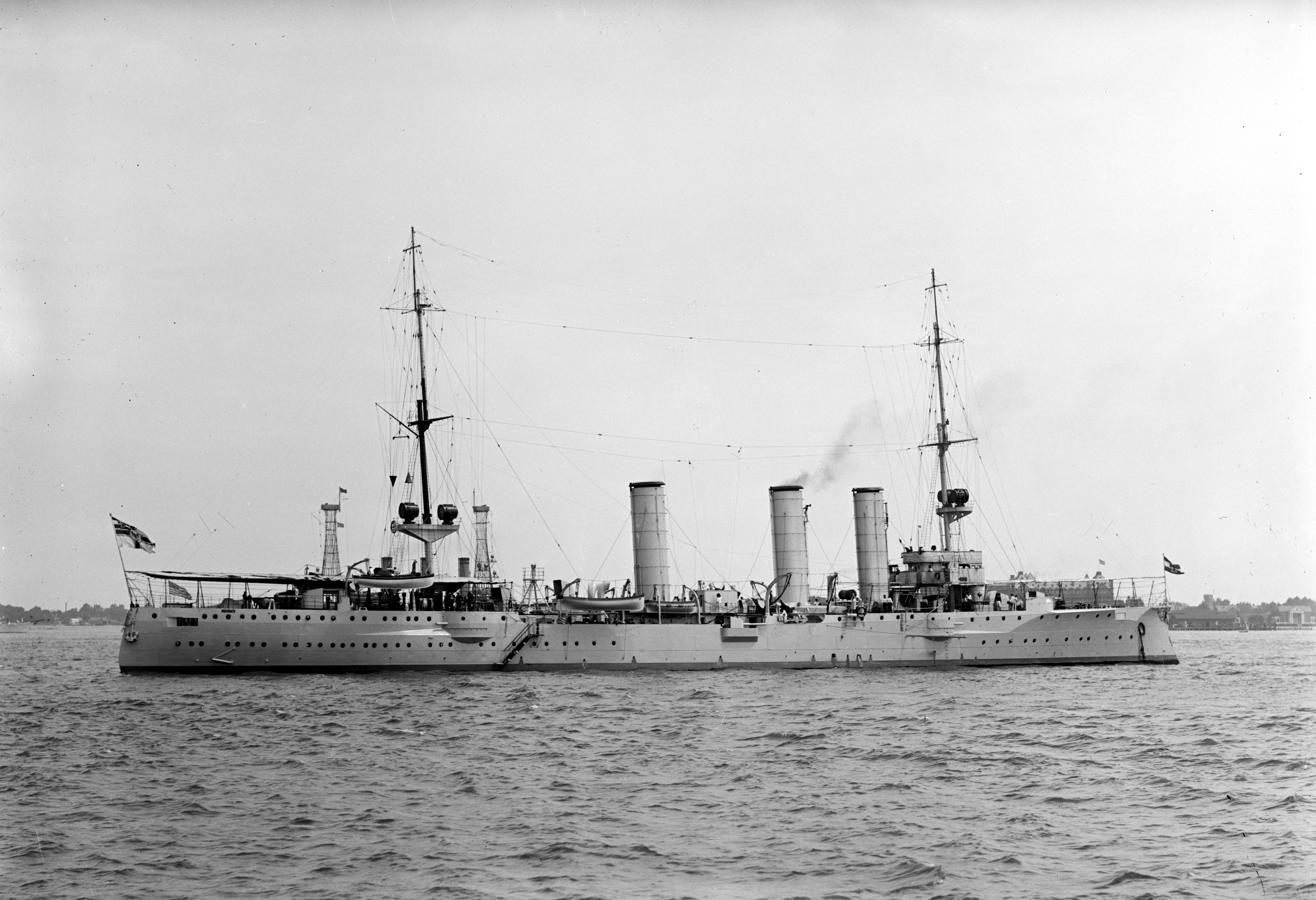 The German light cruiser SMS Stettin during the visit of a German navy squadron (battlecruiser SMS Moltke, light cruisers SMS Bremen and SMS Stettin) to the U.S. in 1912. The cage masts visible aft belong to a U.S. ship anchored behind Stettin.